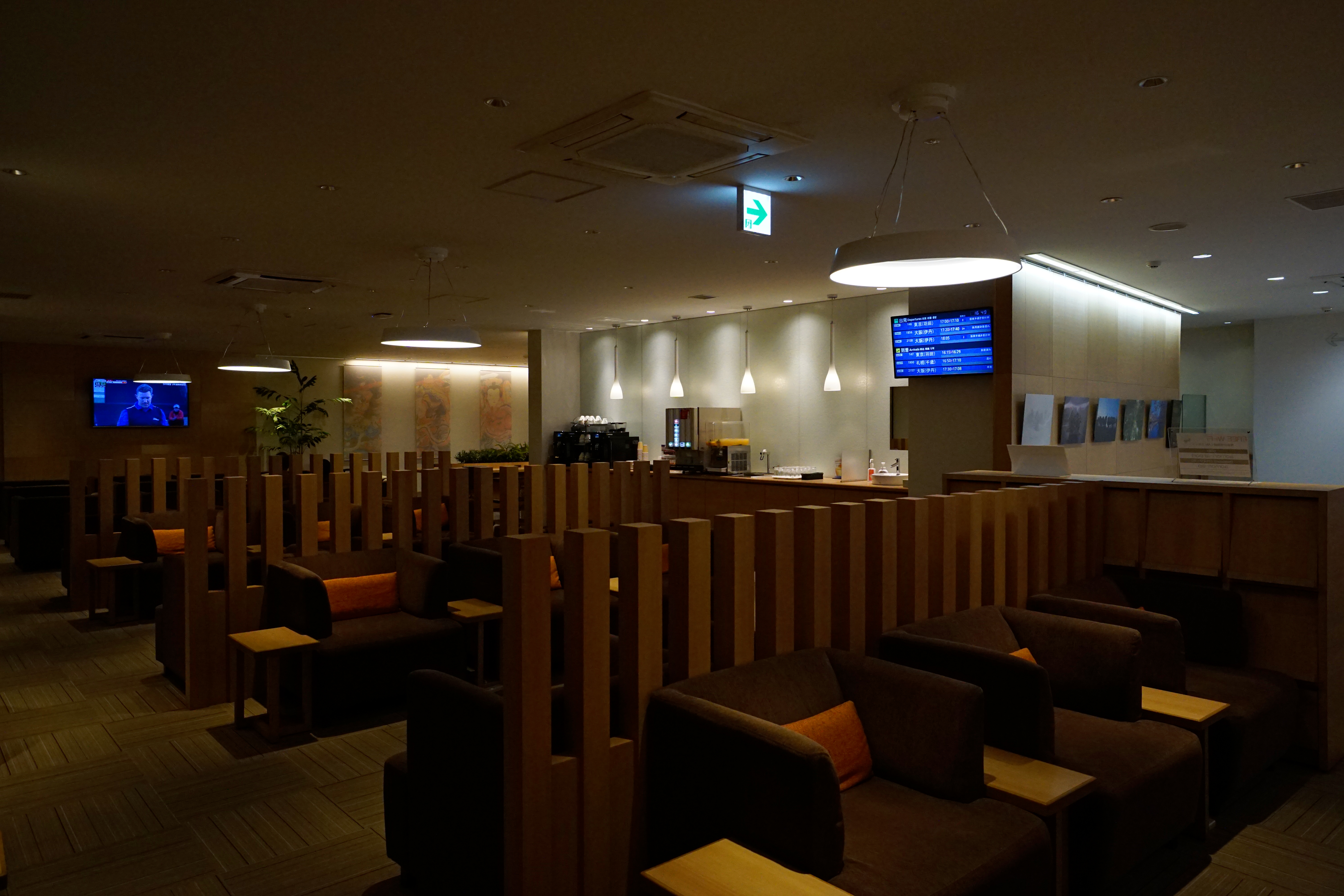 Aomori Airport in Aomori, Aomori prefecture, Japan